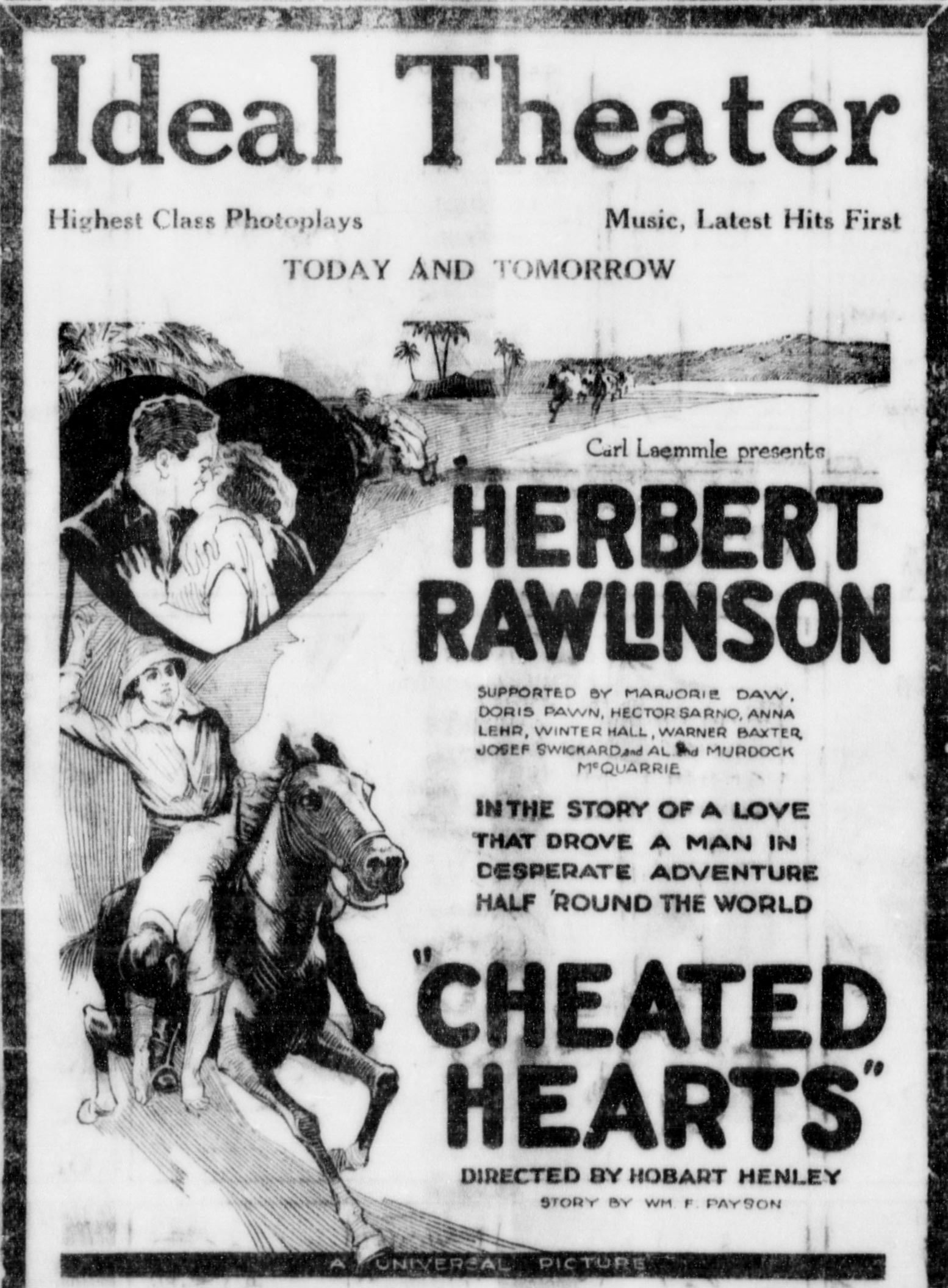 Cheated Hearts is a 1921 American drama film directed by Hobart Henley and featuring Boris Karloff. Newspaper ad in The Evening Herald.